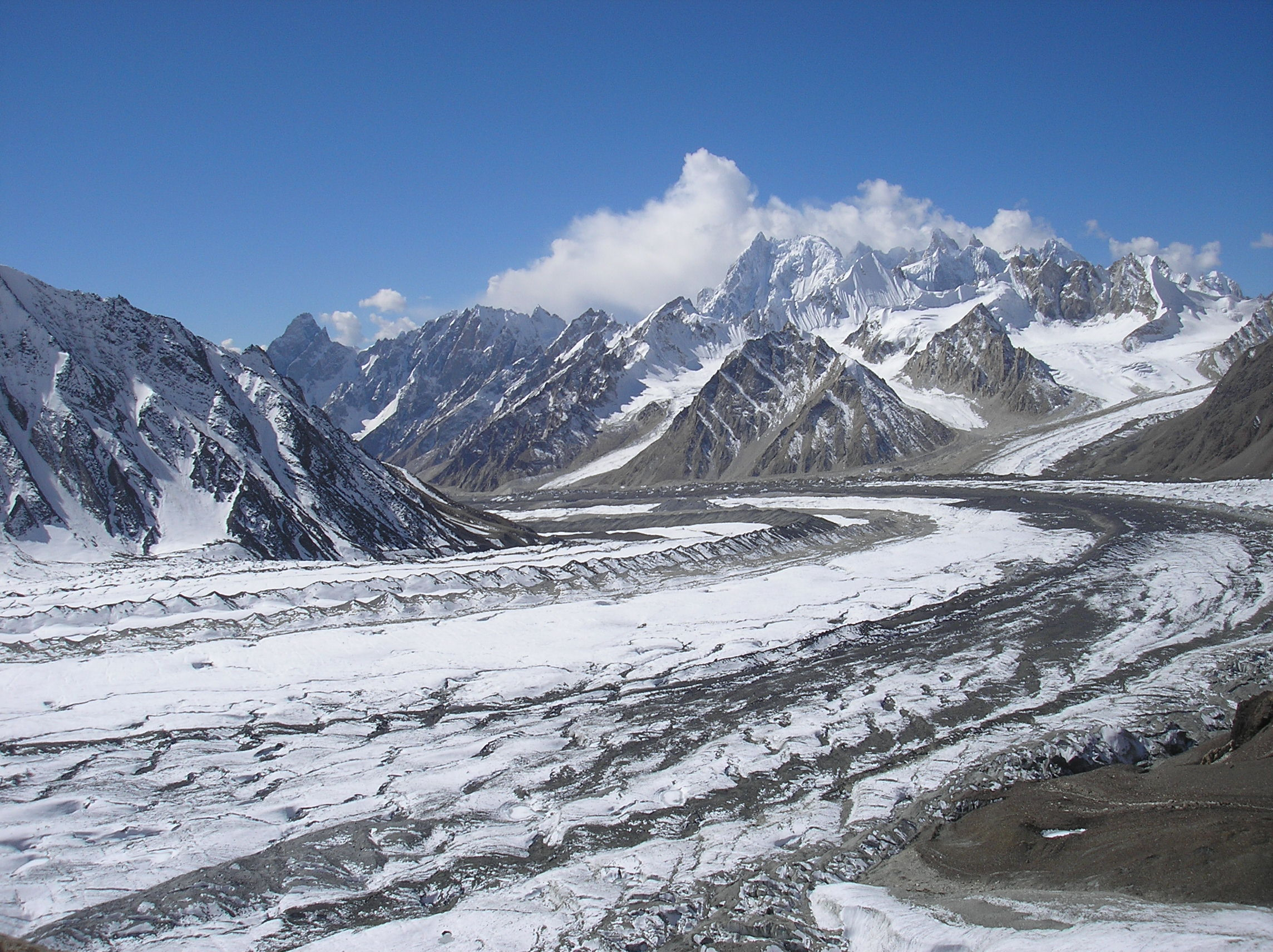 siachin Kondus glacier. Charakusa group (K6 etc.) is in the background. )ː